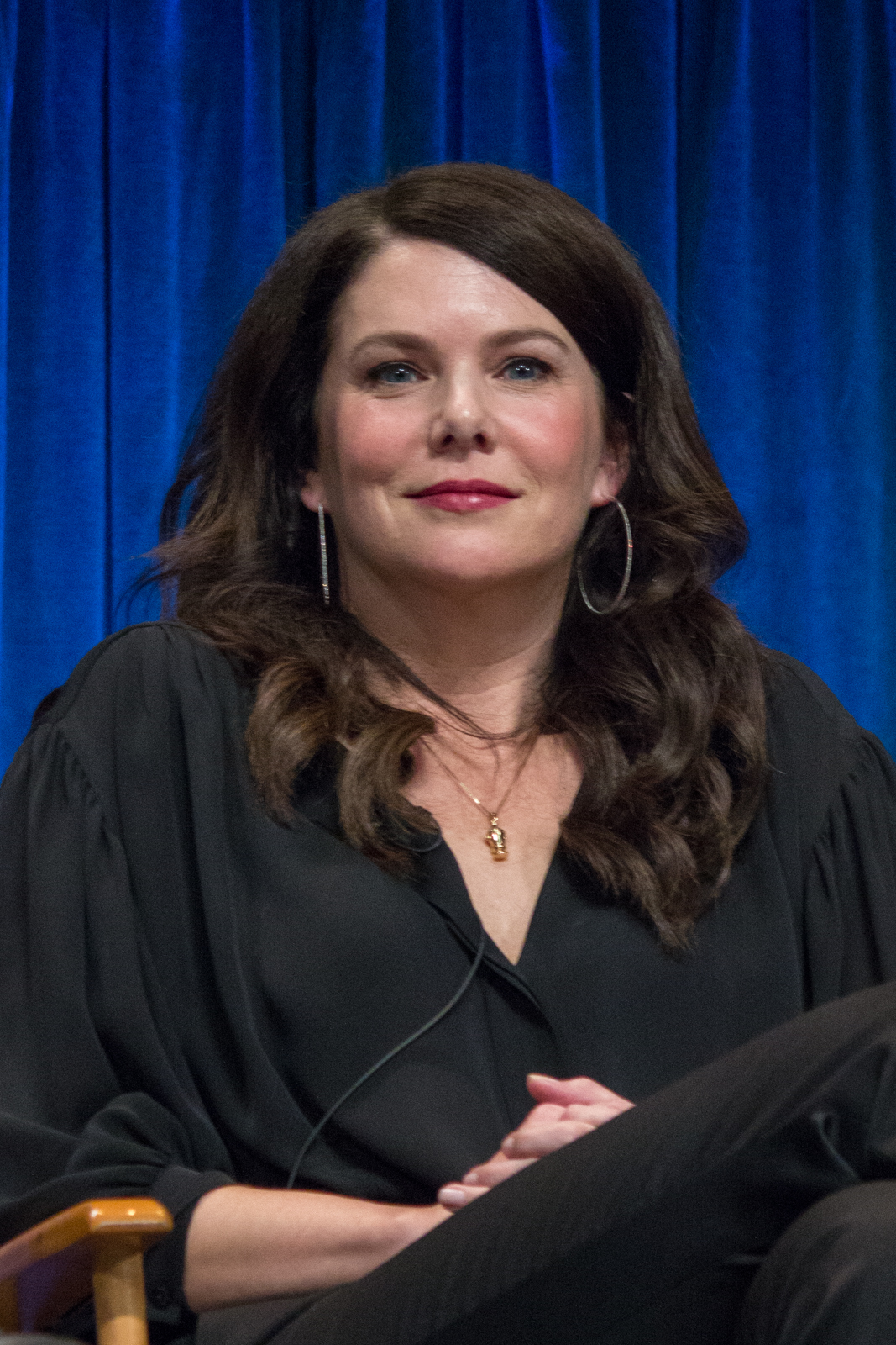 Actress Lauren Graham at PaleyFest 2013's panel for "Parenthood"